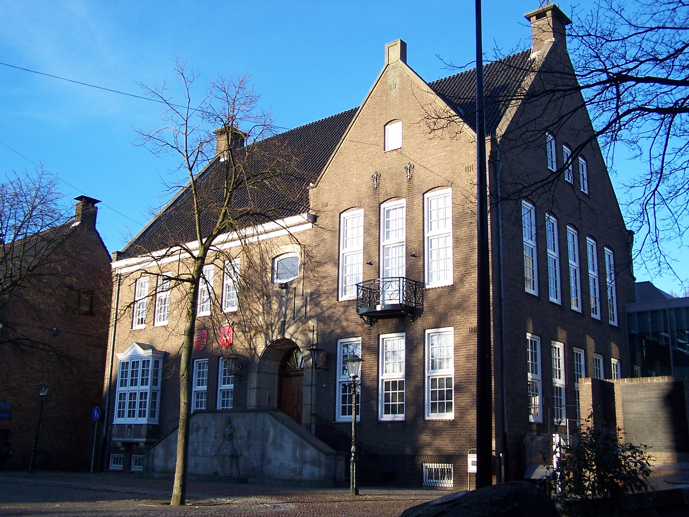 Image from the town of Haaksbergen. The old part of the town hall. 36″ N, 6° 44′ 31.2″ E